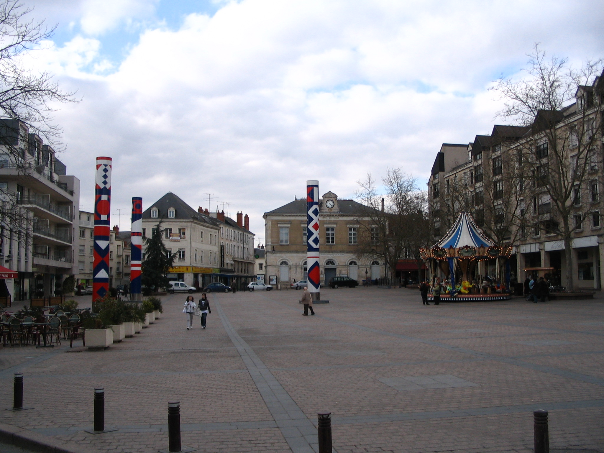 Republic Square, in Châteauroux, Indre, France.